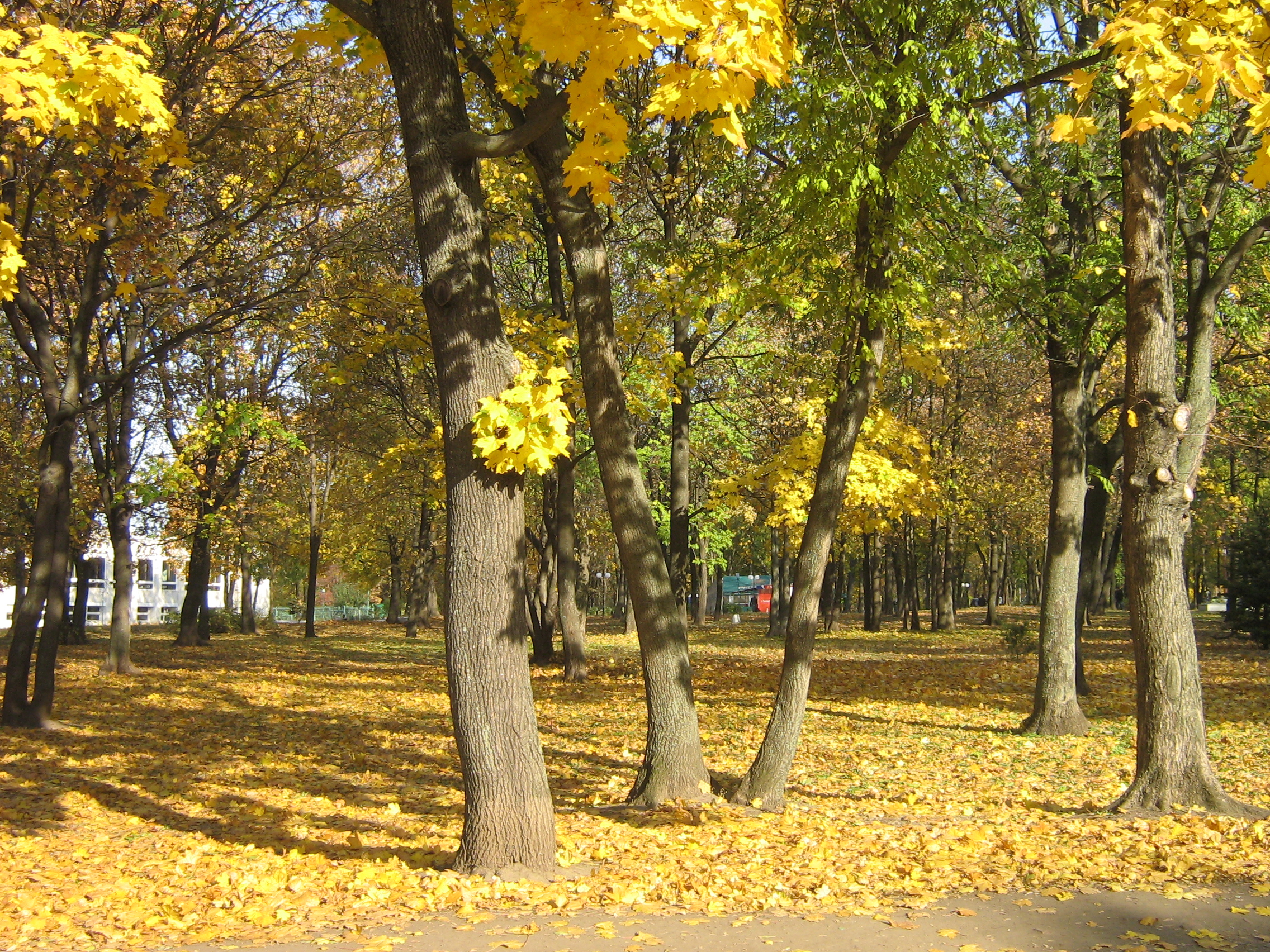 Autumn in Kharkiv. Ukraine.